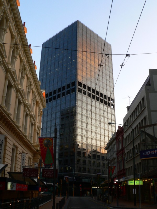 BNZ Tower taken from Lambton Quay, 28 Dec 2006.